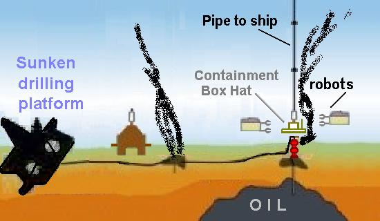 Concept diagram of underwater oil containment box "Top Hat" planned for the Deepwater Horizon oil spill on 11 May 2010. Diagram shows 2 underwater robots to install the device. At this stage, there were 2 remaining oil leaks from the fallen pipeline.